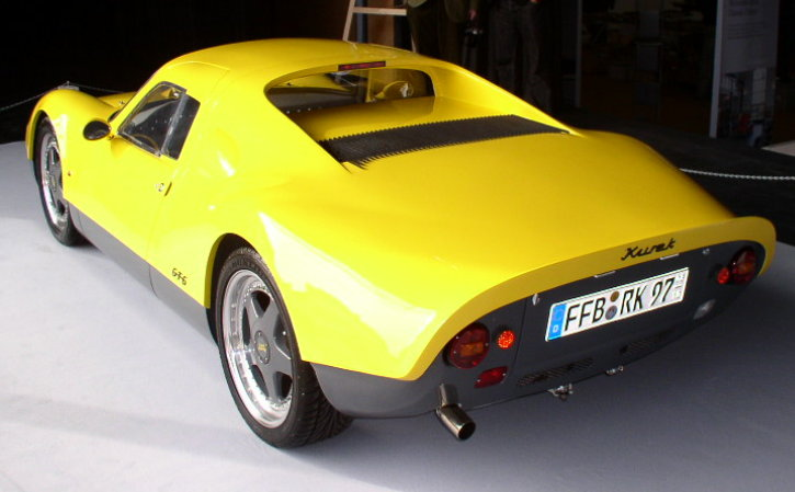 2008 Kurek GT-6 prototype